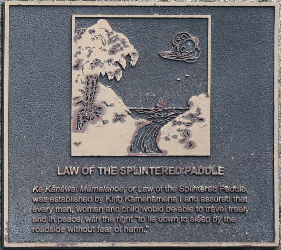 Plaque on the King Kamehameha I Statue, outside Aliiolani Hale, showing the Law of the Splintered Paddle (Ke Kānāwai Māmalahoe).